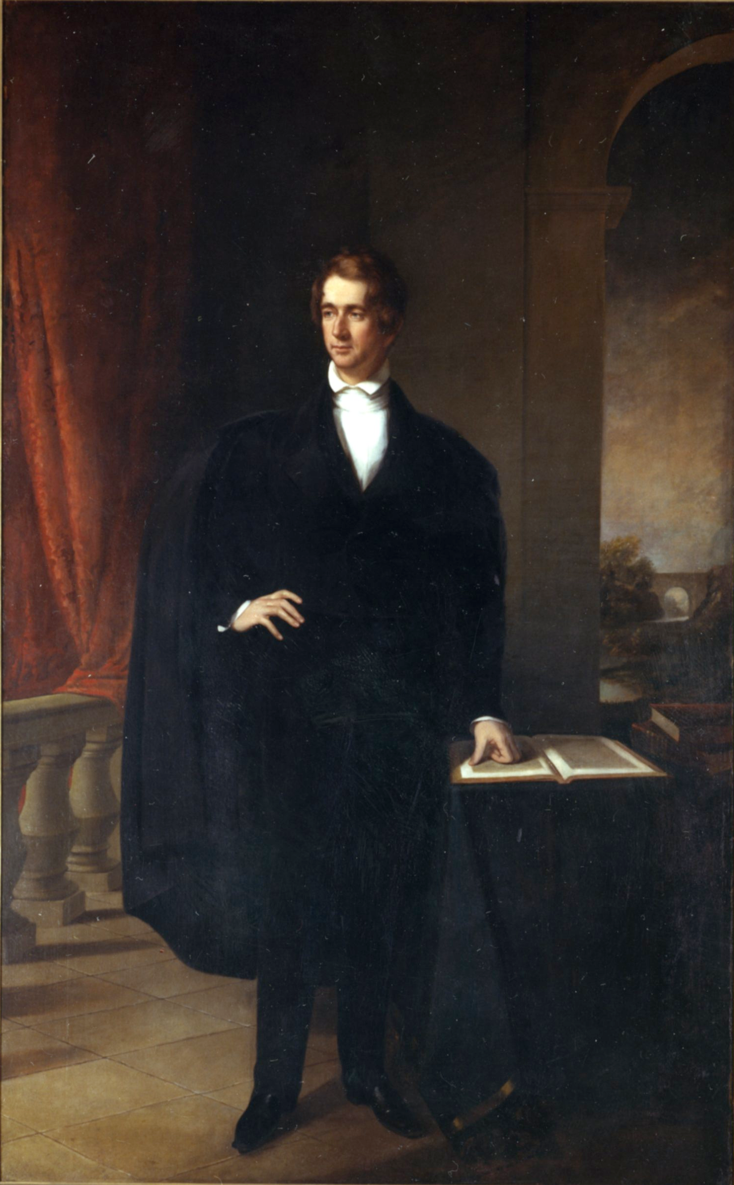 Official Gubernatorial portrait of New York Governor (and United States Secretary of State) William H. Seward.